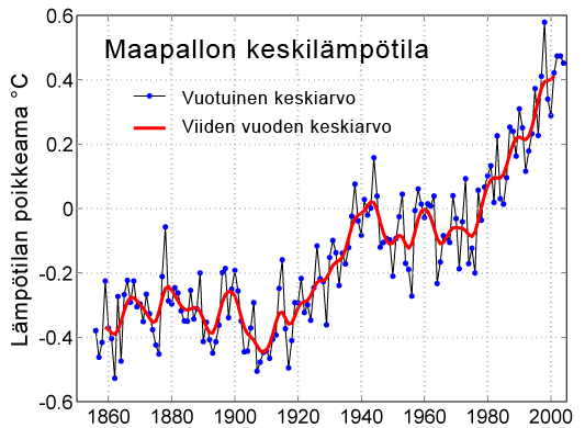 A Finnish version of a record of global average temperatures.